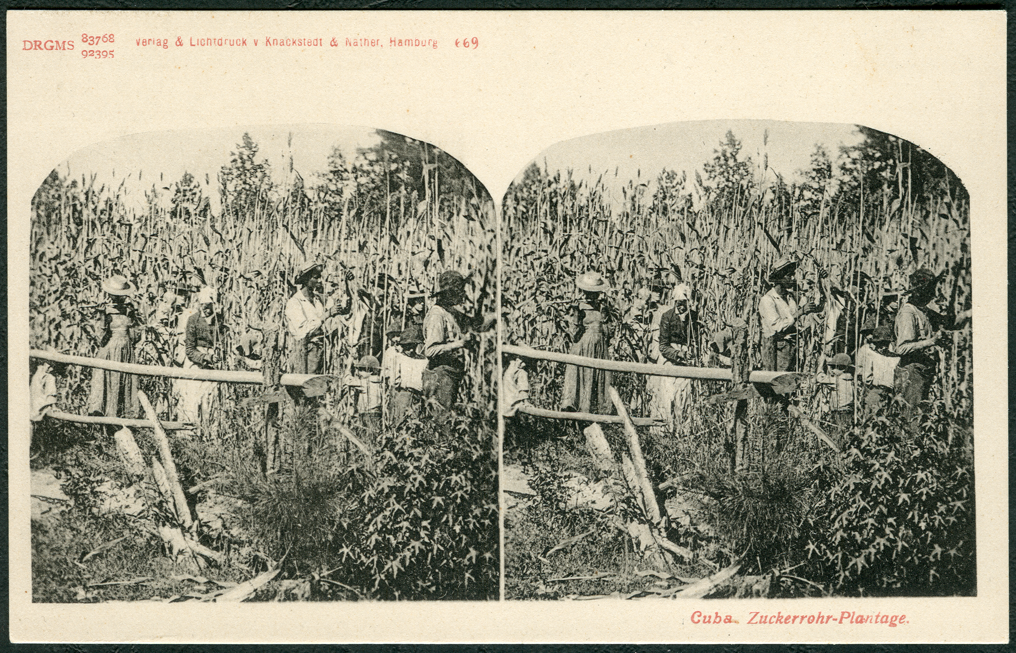 About 1900: Slaves forced to work for their lives in a sugar plantation on Cuba ...